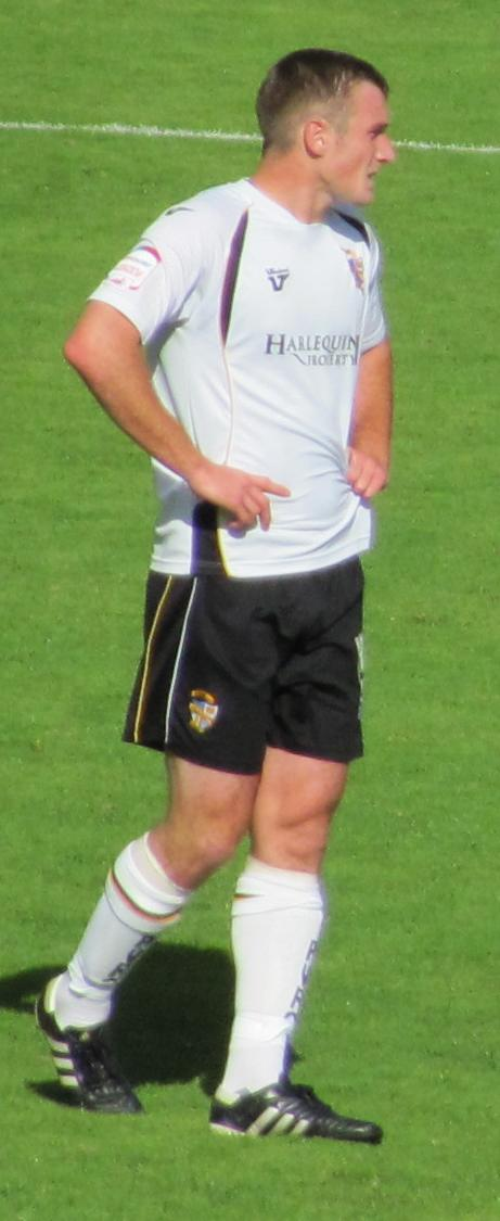 Lee Collins (footballer born 1988)